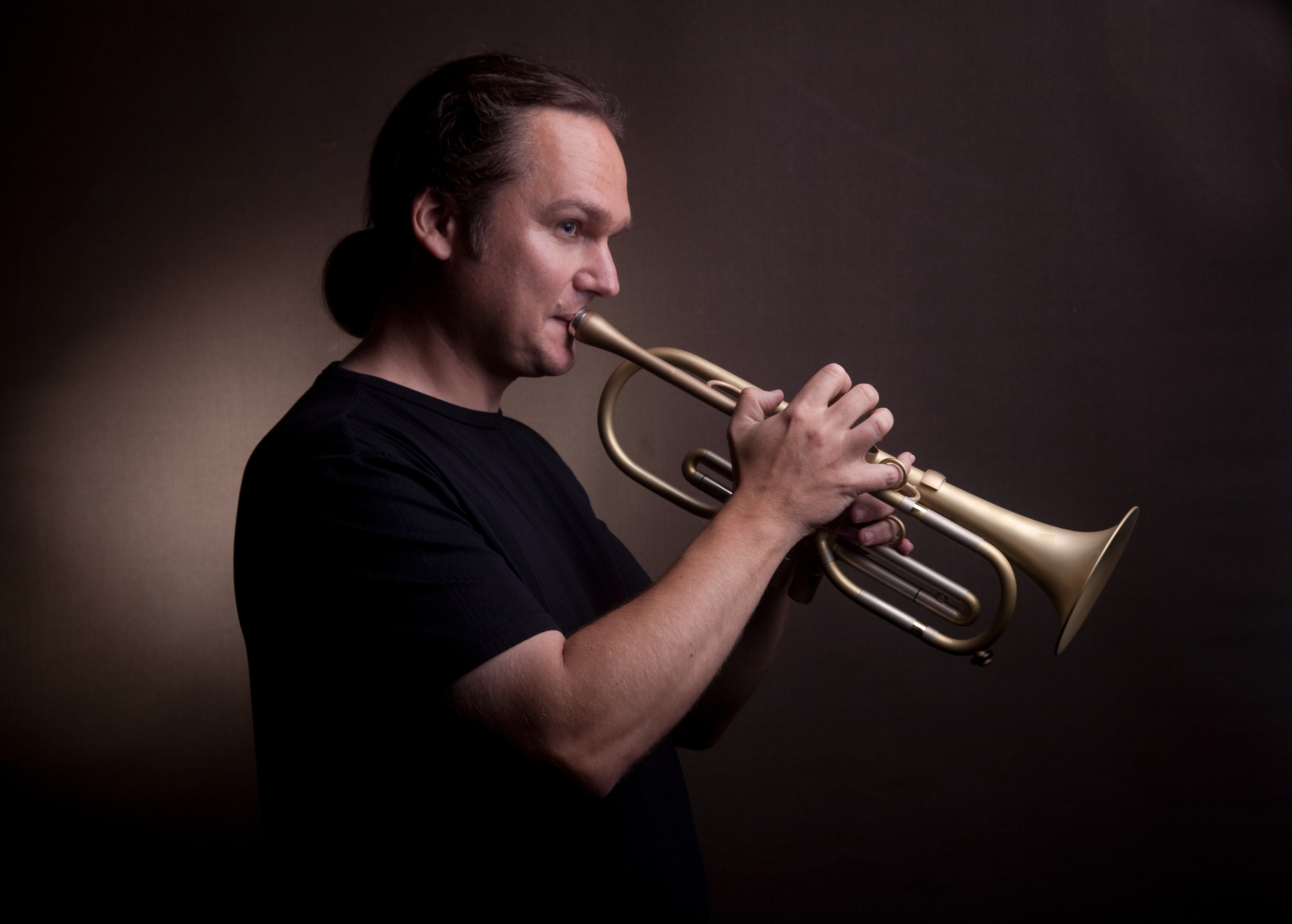 Michael T. Otto